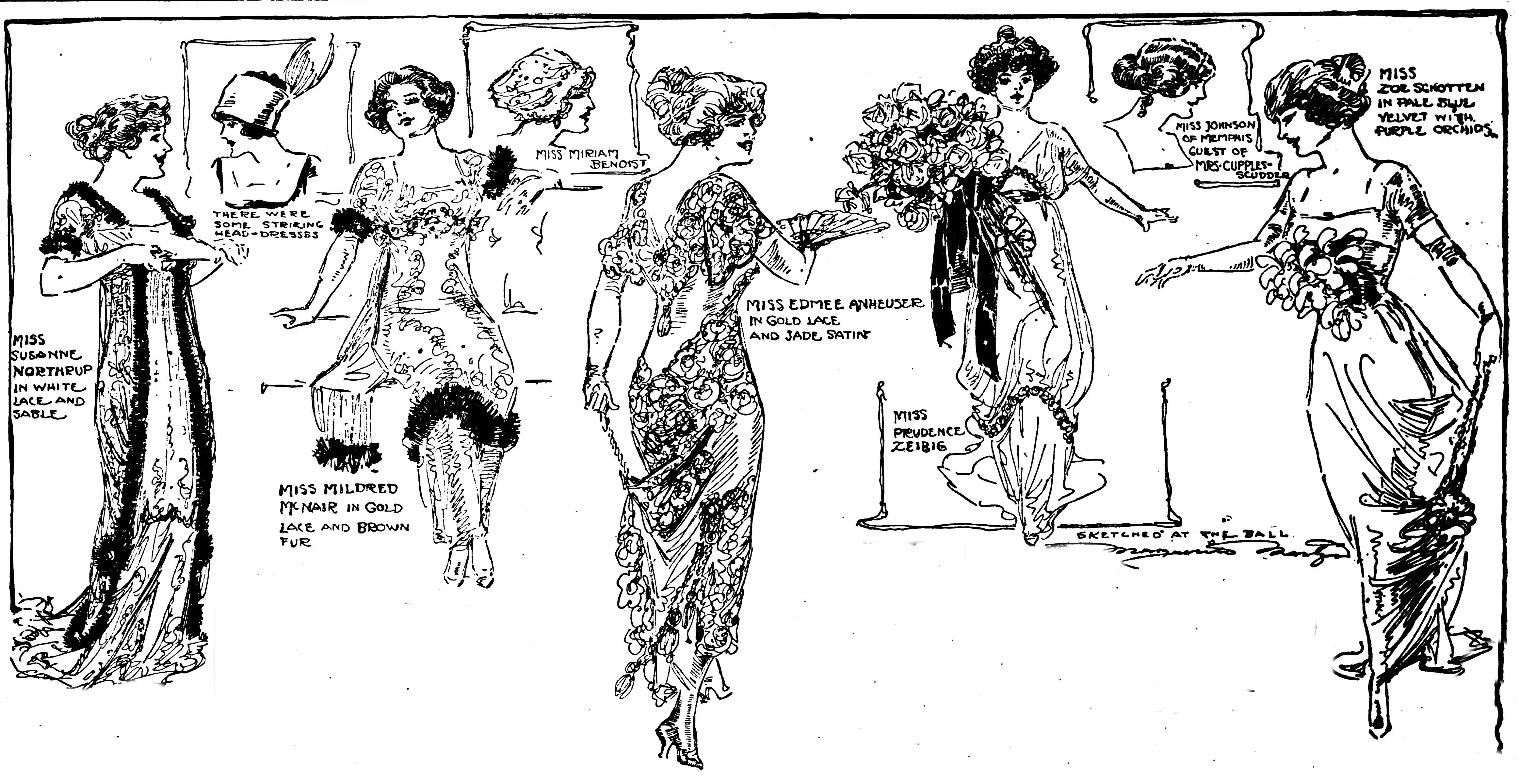 Fashion sketch by Marguerite Martyn of women attending the St. Louis Veiled Prophet Ball in 1911. They were Susanne Northrup, Mildred McNair, Miriam Besnoist, Edmee Anheuser, Prudence Zeibig, Miss Johnson, and Zoe Schotten. One was unidentified.